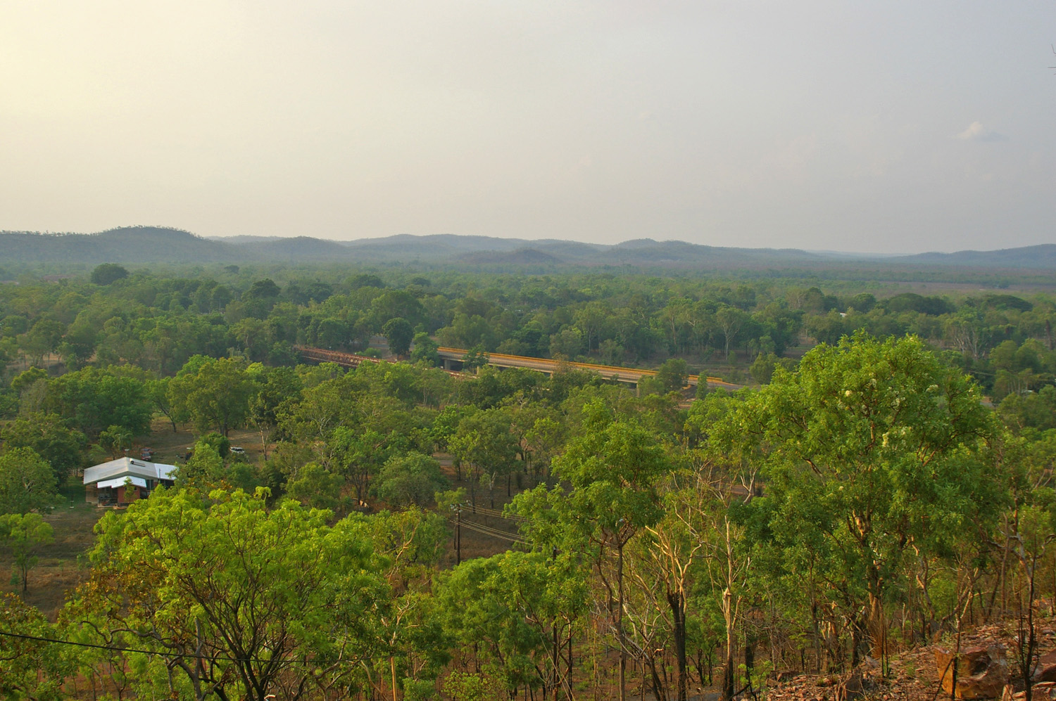 Overlooking over the township of Adelaide River as well as the river from a local lookout at the Township of Adelaide River during the start of the Build-Up.